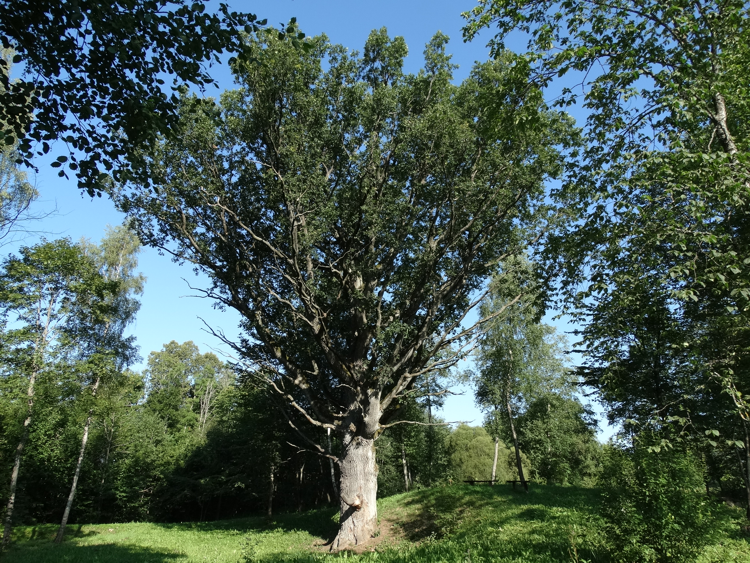 Šaukšteliškiai Oak, Molėtai district, Lithuania